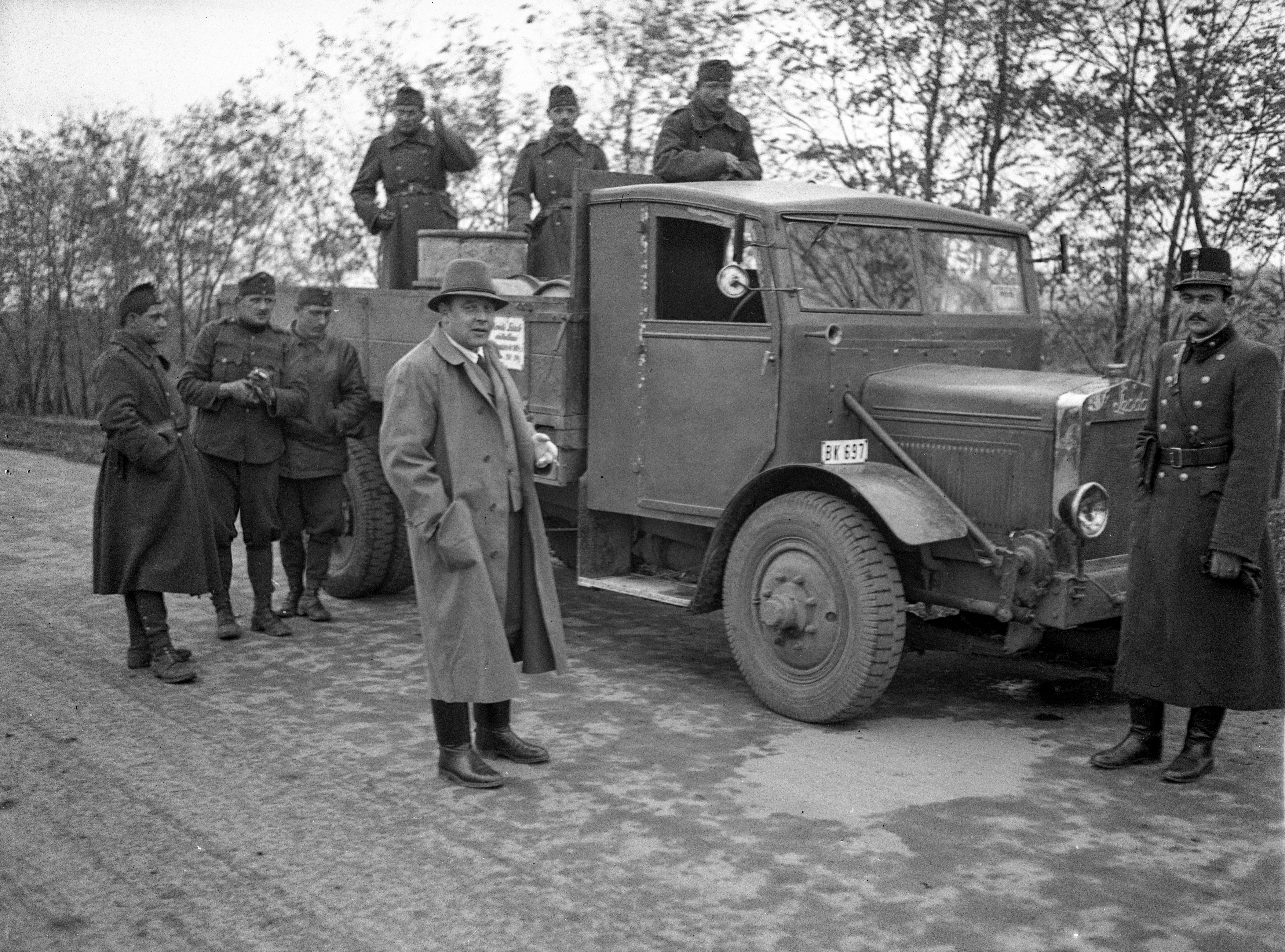 Tags: commercial vehicle, Skoda-brand, Czech brand